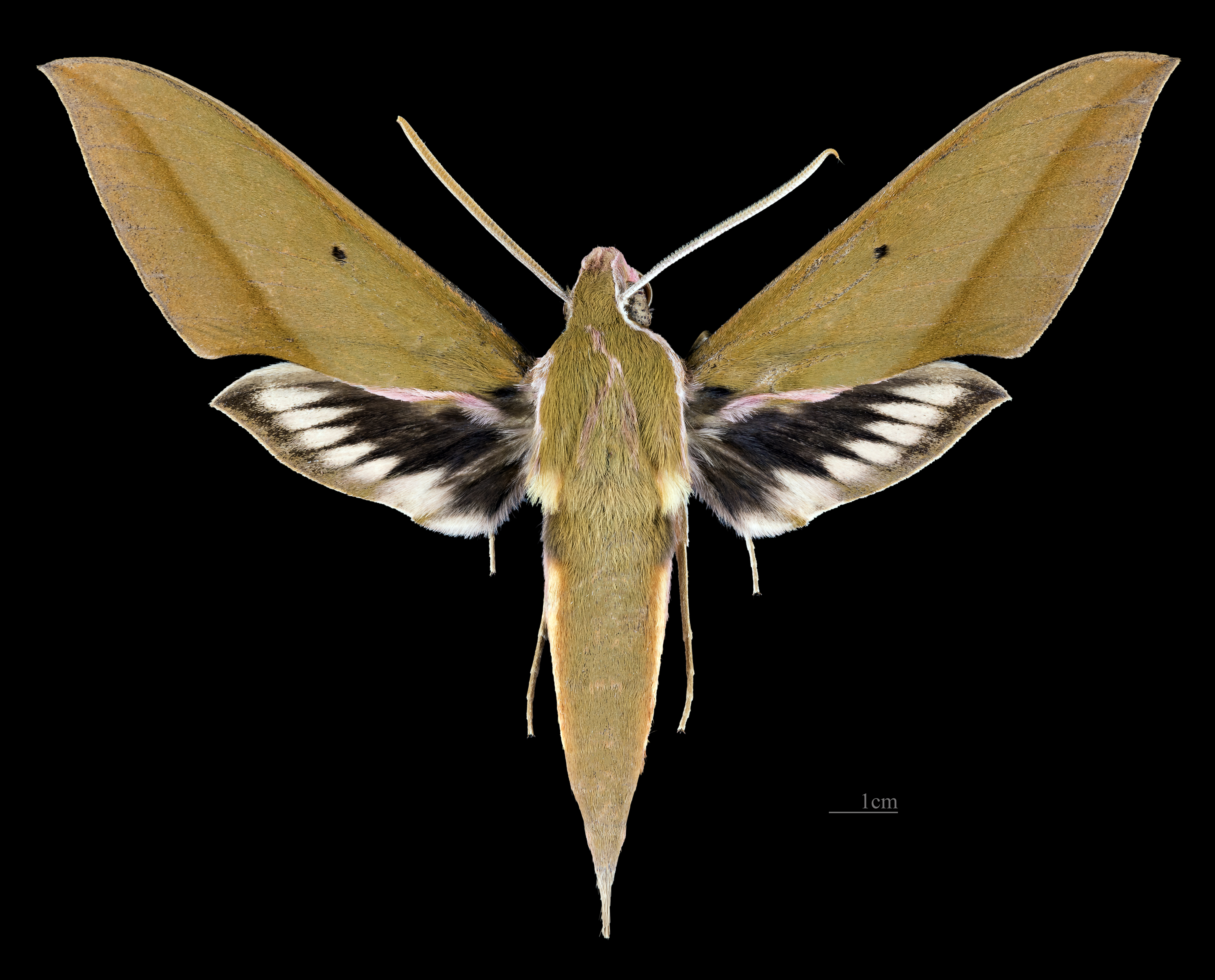 Xylophanes schwartzi - Dorsal side Paratype